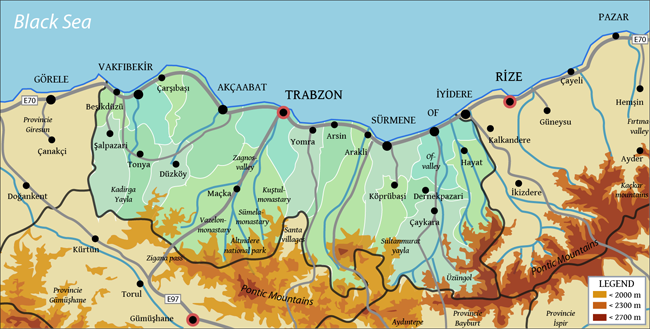 Map of Trabzon province including main roads and rivers and places of interest